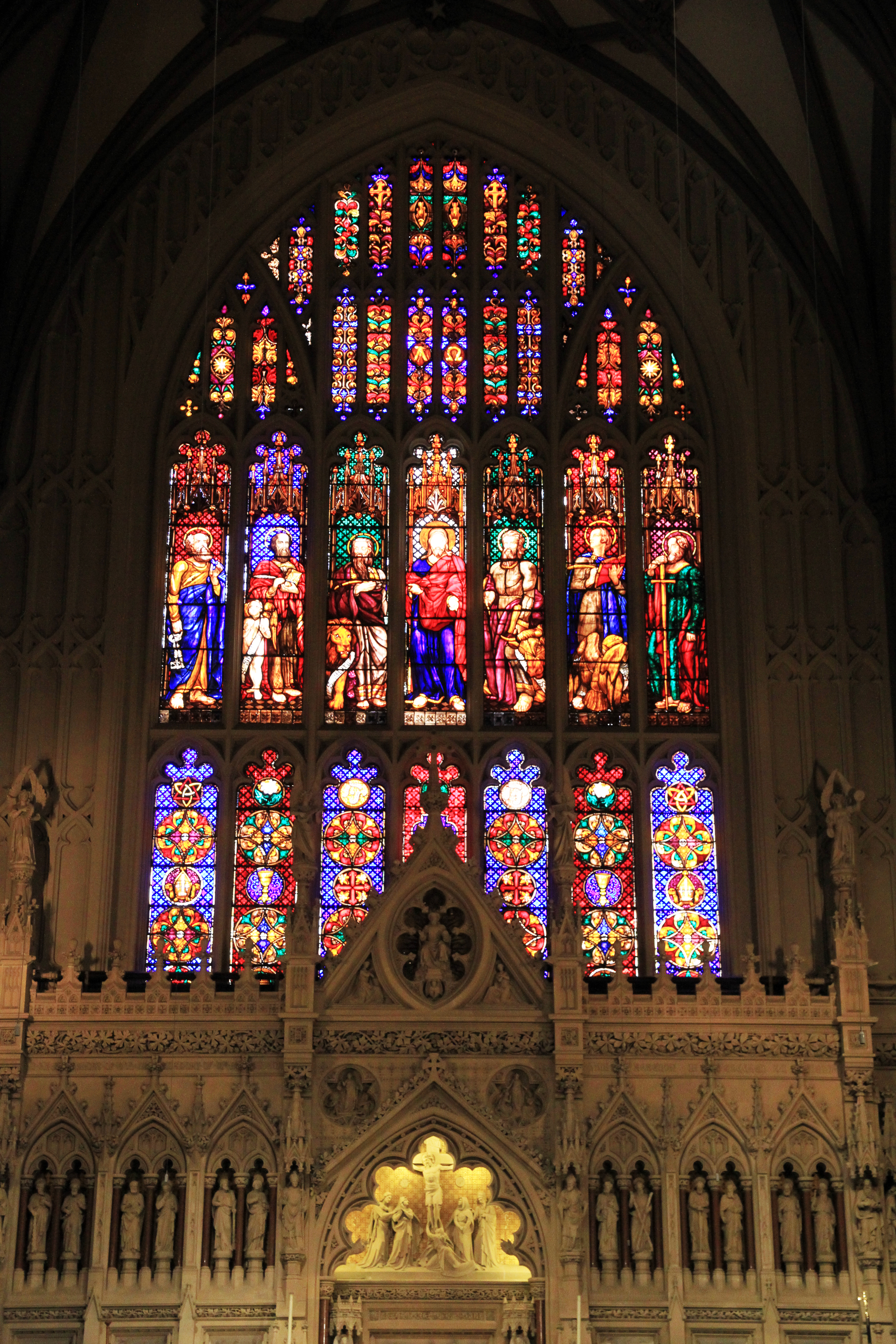 Stained Glasses